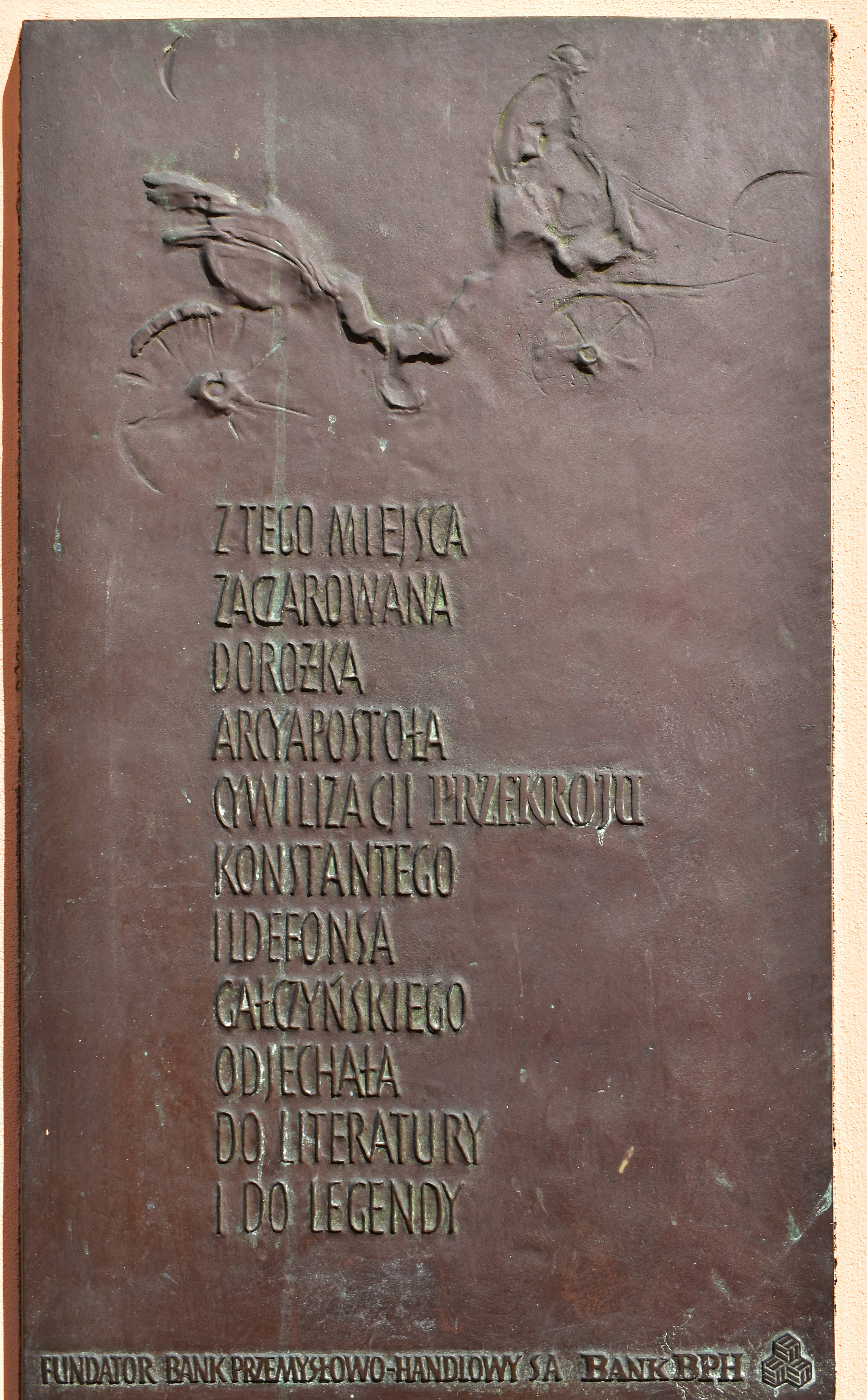 Pod Murzynami tenement, Konstanty Ildefons Gałczyński (Polish poet) and Magic Carriage commemorative plaque (1998 design. by M. Stankiewicz), 1 Floriańska street (1 Mariacki square), Old Town, Krakow, Poland